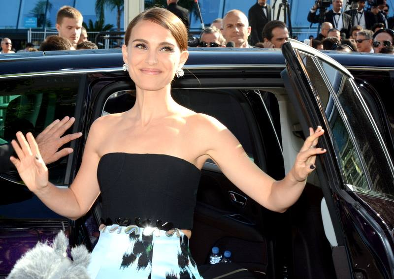 Natalie Portman at the Cannes film festival